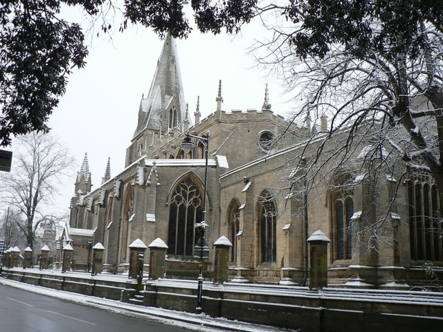 St Deny's Church. Sleaford